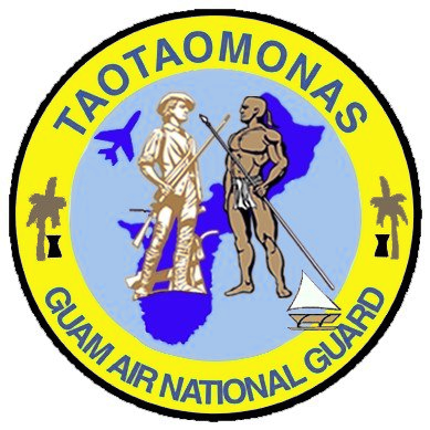 Roundel of the Guam Air National Guard, U.S. Air Force.